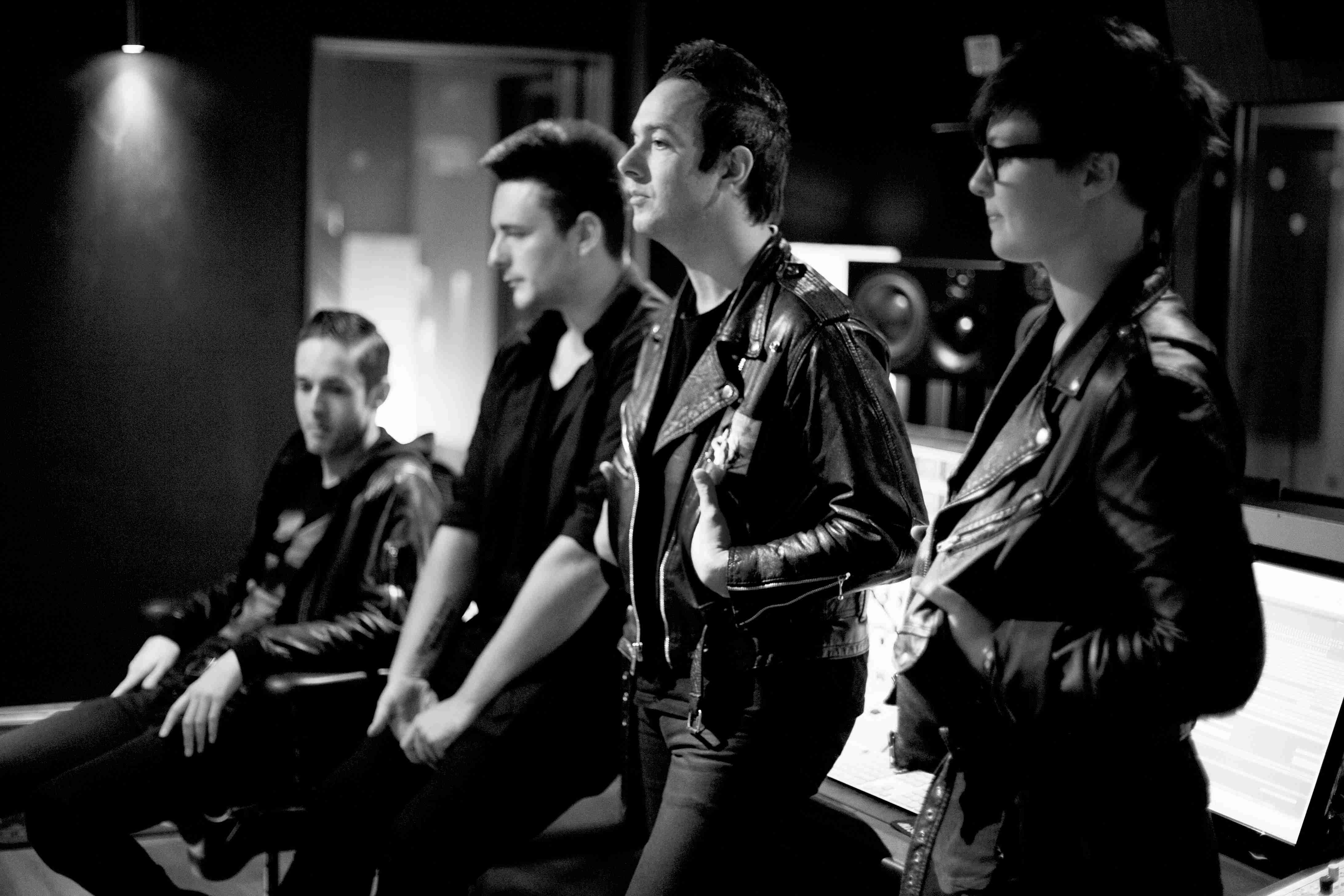 Photo of Glasvegas. Private collection.